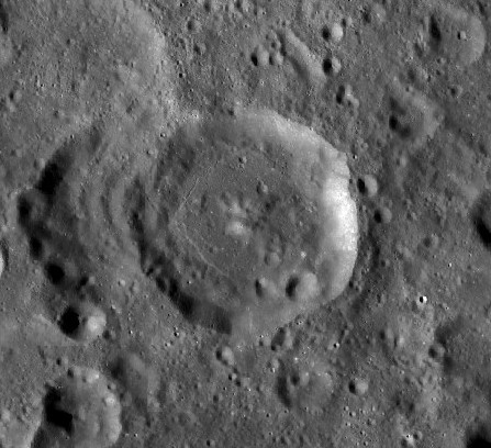 LRO-WAC image